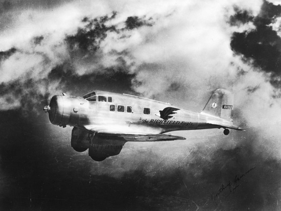 Richfield Oil Company - The Richfield Eagle - Northrop Delta 1D NC13777